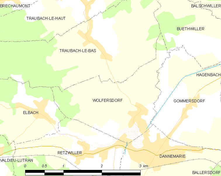 Map of French municipality